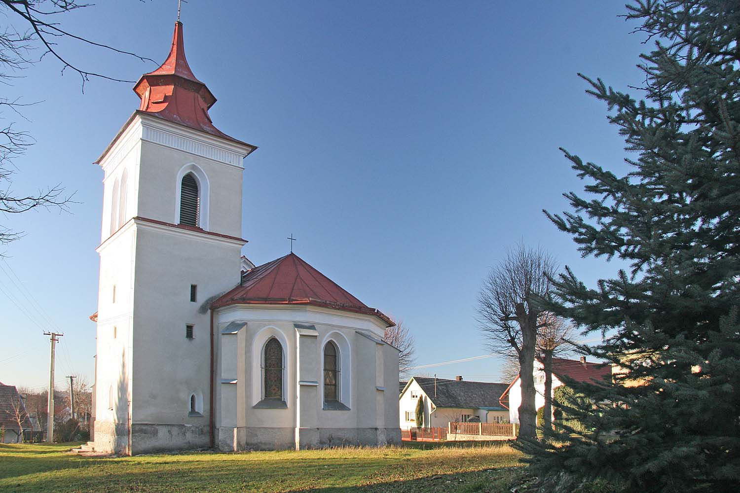 Church of the Transfiguration in village of Kožlí, Havlíčkův Brod District, Czech Republic autor: Prazak date: 15. 12. 2006